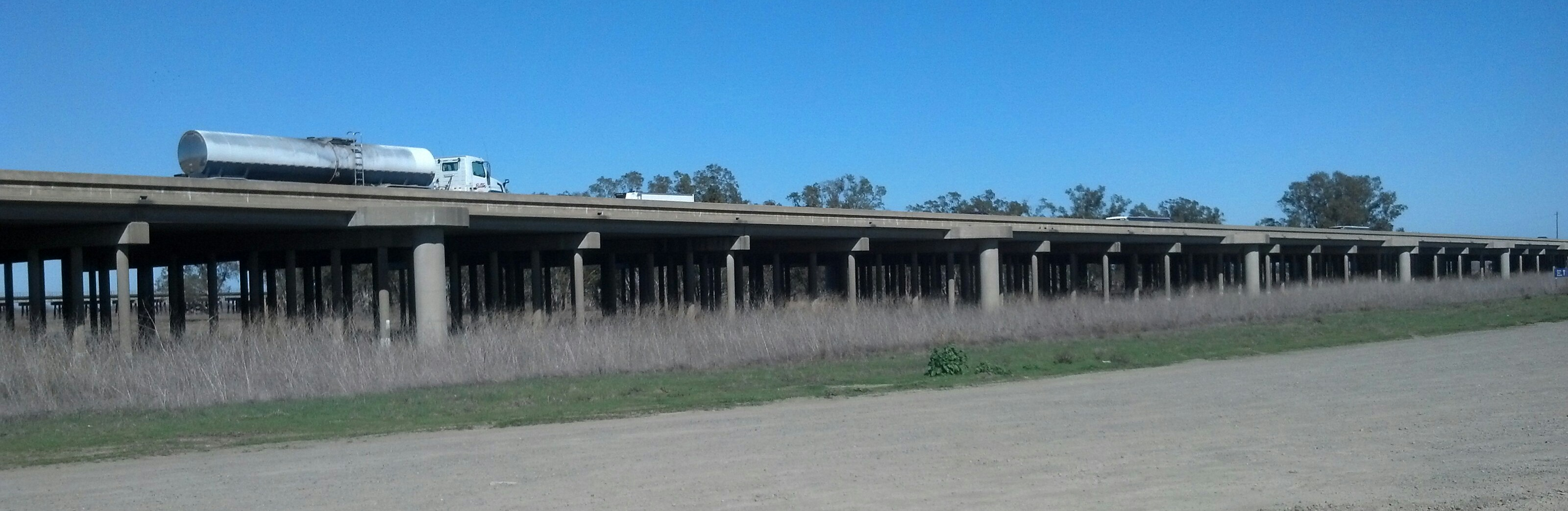 The Yolo Causeway for Interstate 80 — seen from the entrance to the Yolo Bypass Wildlife Area in Yolo County. Photo by Jim Heaphy.